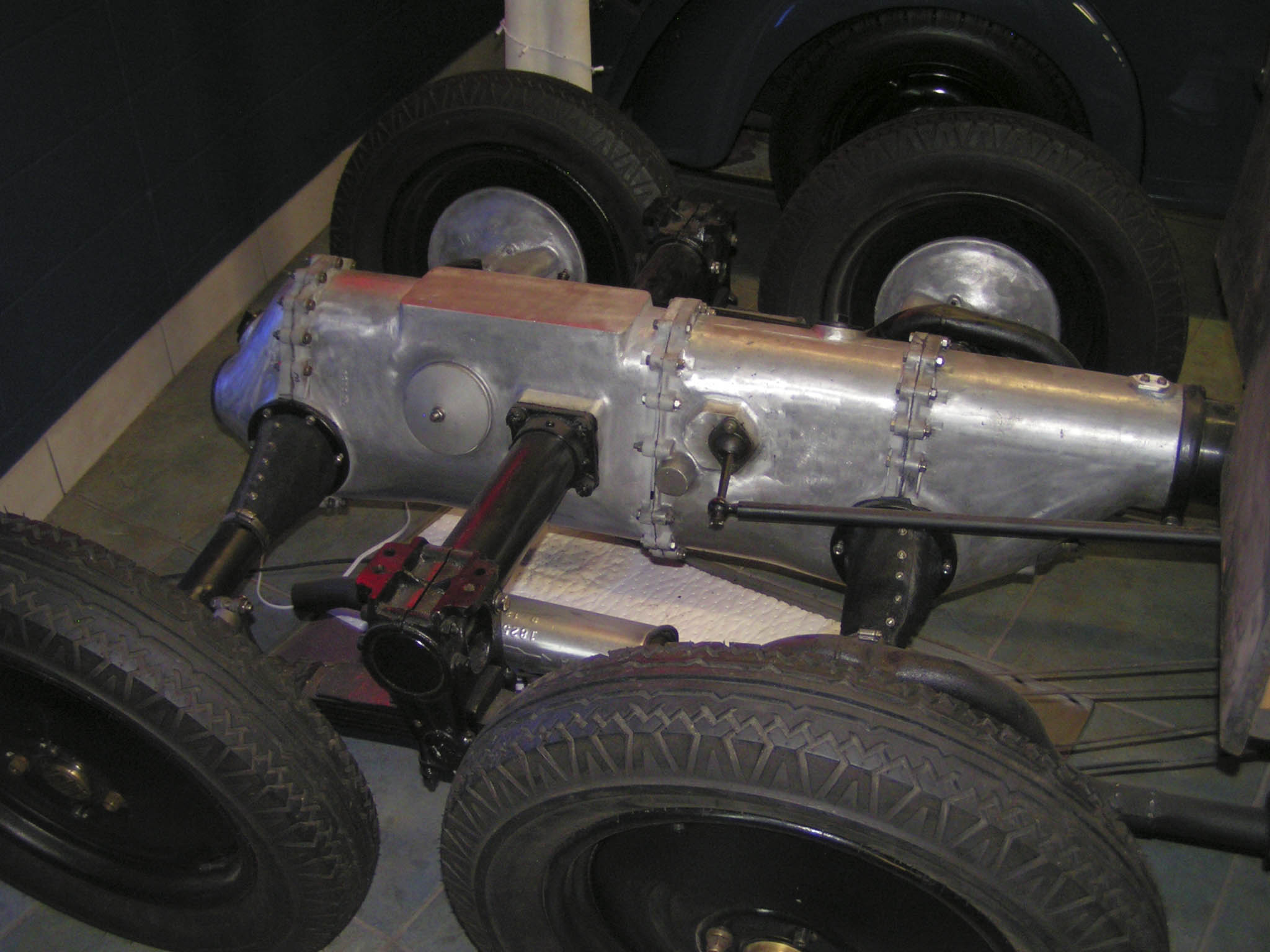 You can see clearly Tatra's chassis-less construction and swing axles on this Tatra T26-30 truck.